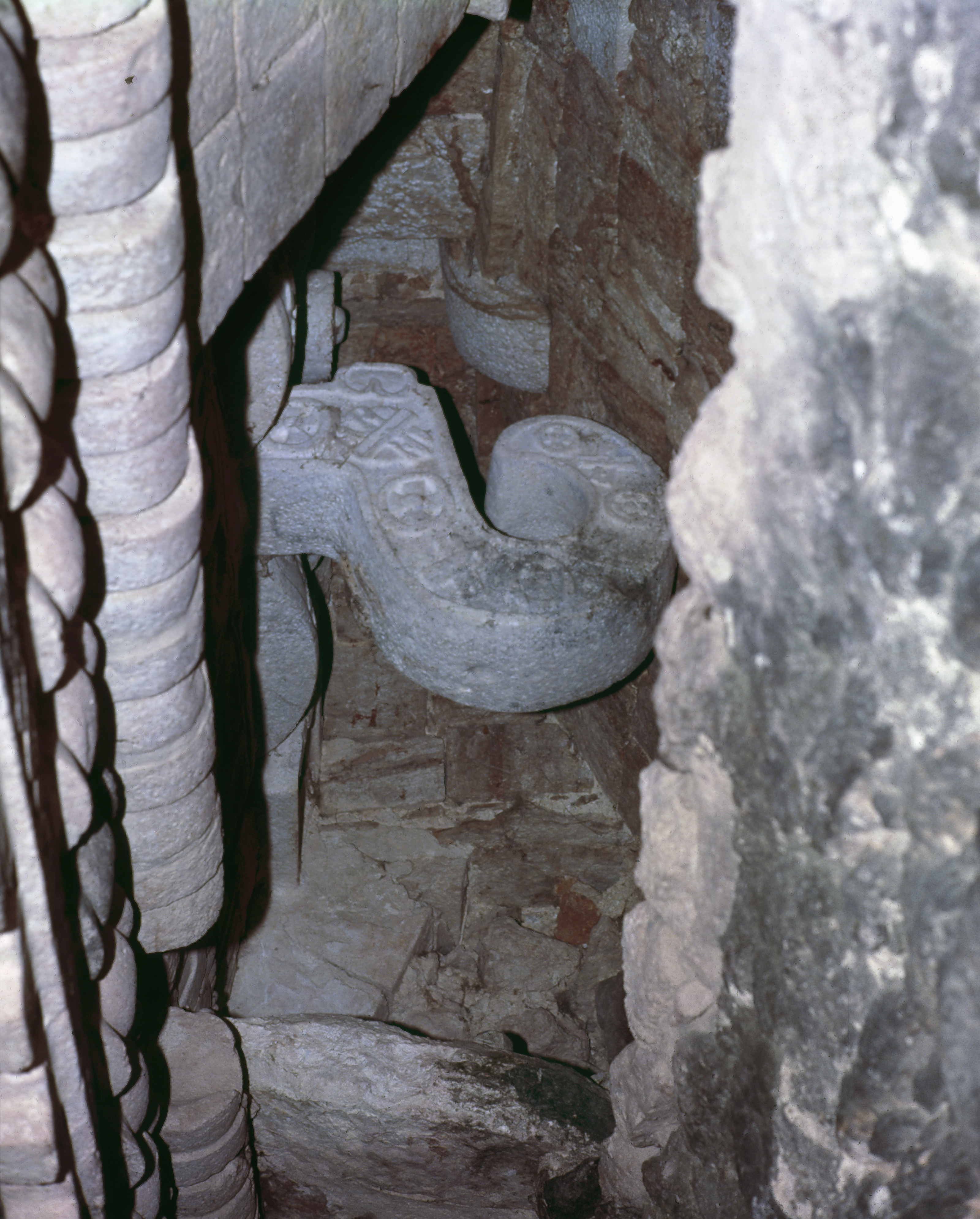 Uxmal, Yucatan, Mexico: Adivino, Temple 1, facade